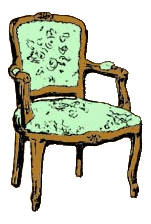 Furniture. Transparent version of Za picture.